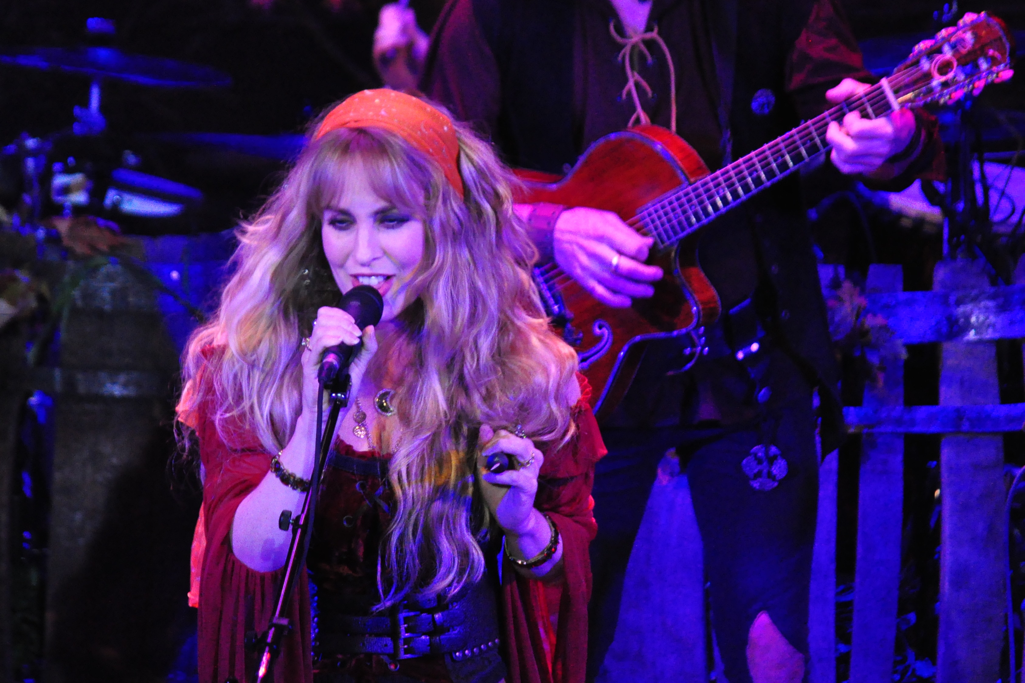 Candice Night live in concert with Blackmore's Night at the Tarrytown Music Hall, October 25, 2012